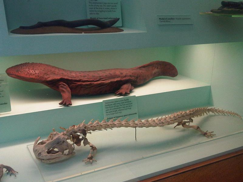 Japanese giant salamander (Andrias japonicus) skeleton and model, at the Natural History Museum in London, England.